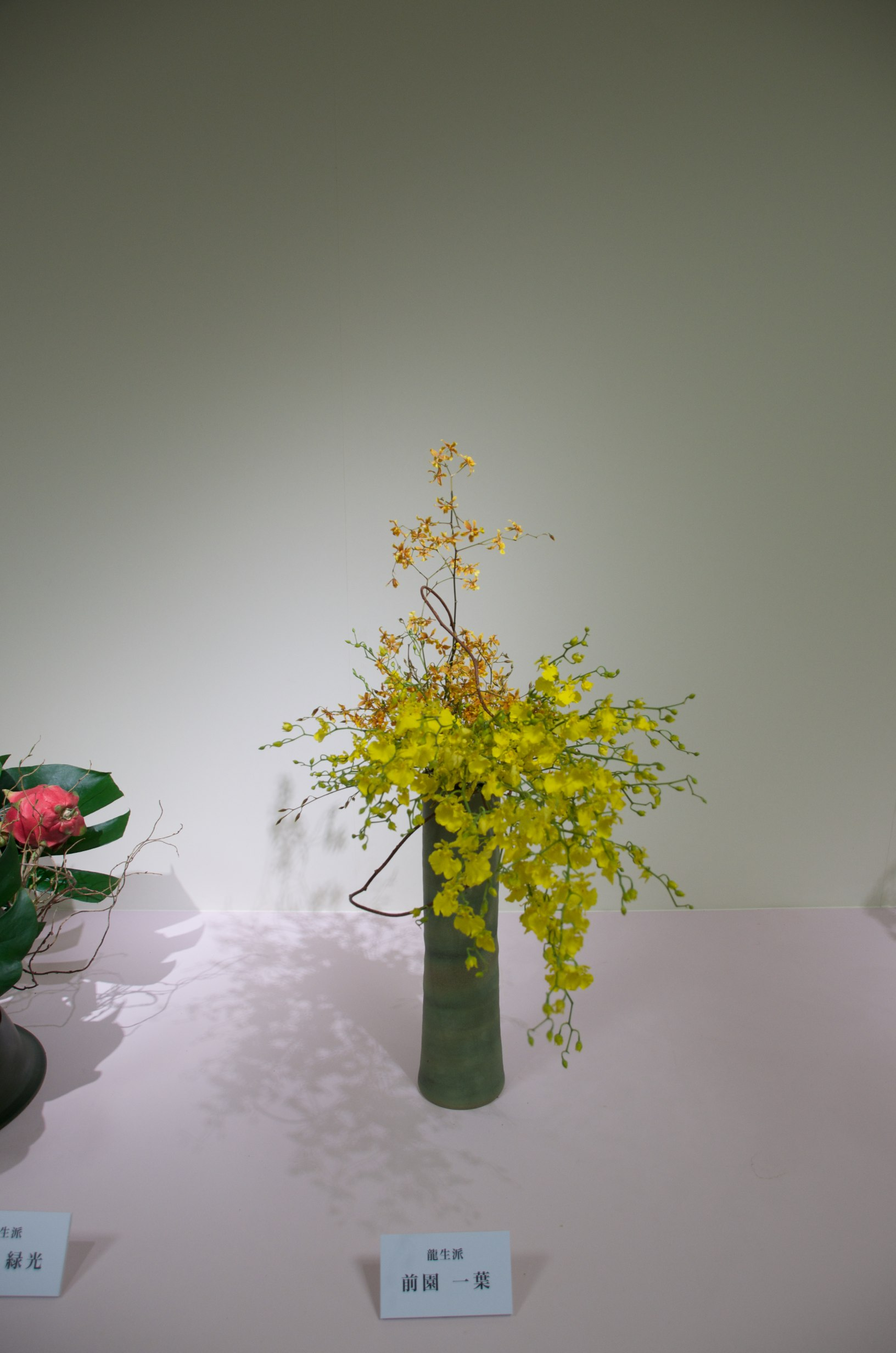 Ryūsei-ha floral arrangement.